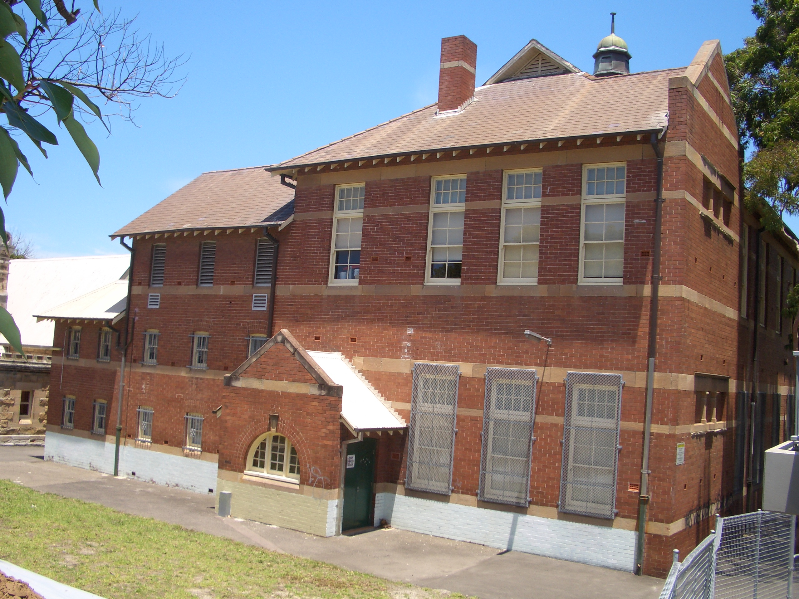 Arncliffe Public School